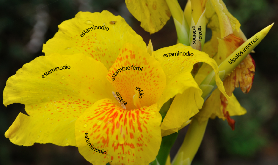 Spanish labels